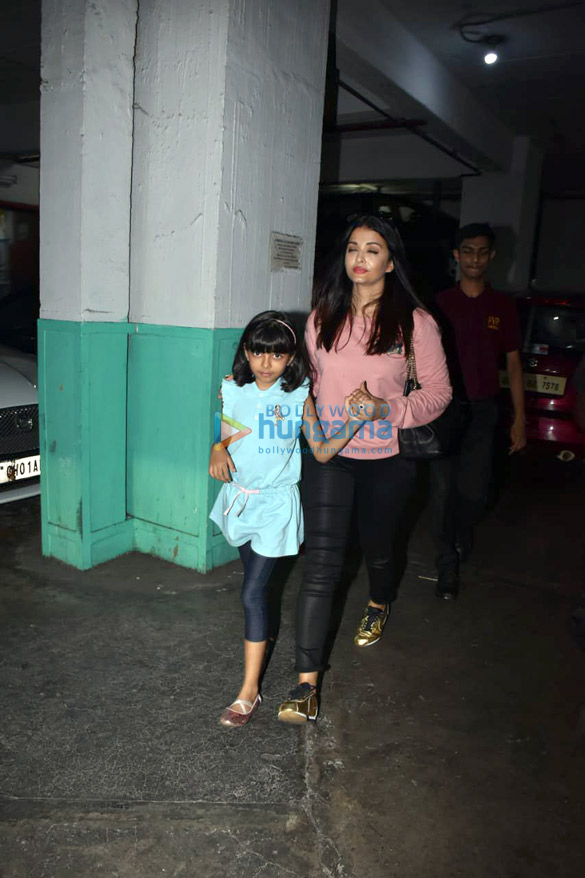 Photos: Abhishek Bachchan, Aishwarya Rai Bachchan and Aaradhya Bachchan spotted at Juhu PVR